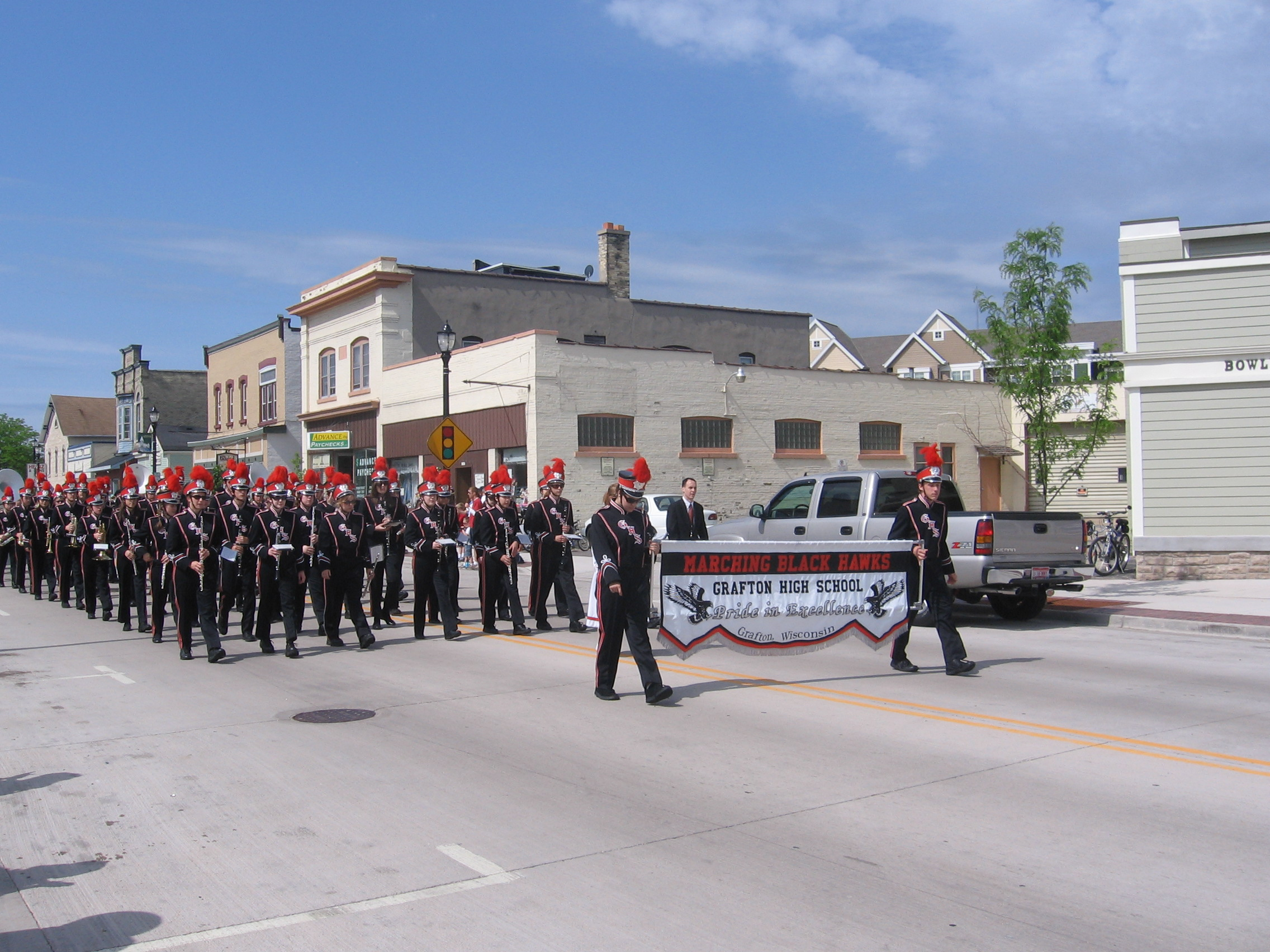 A Memorial Day parade in Grafton on May 28, 2007, on 12th Avenue. It features the Marching Black Hawks of Grafton High School. I took this photo myself.